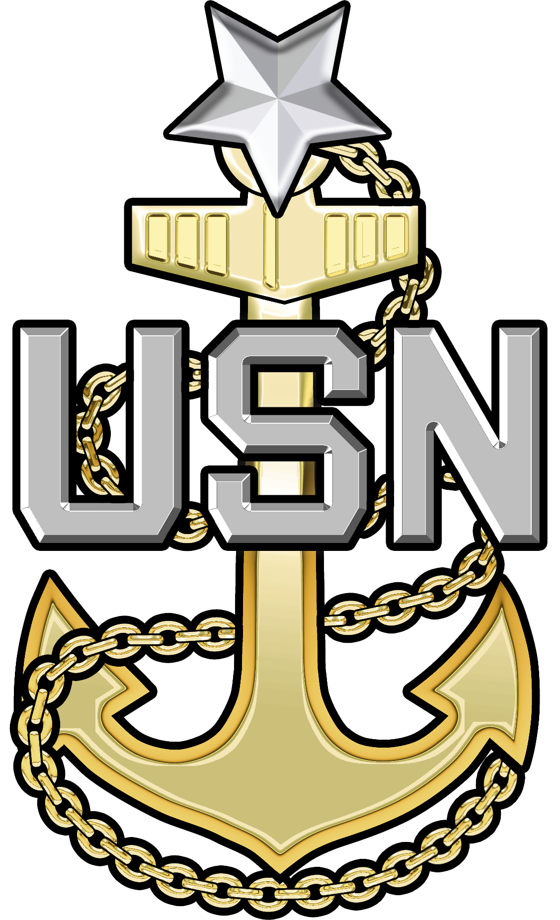 United States Navy Senior Chief Petty Officer collar rate insignia.